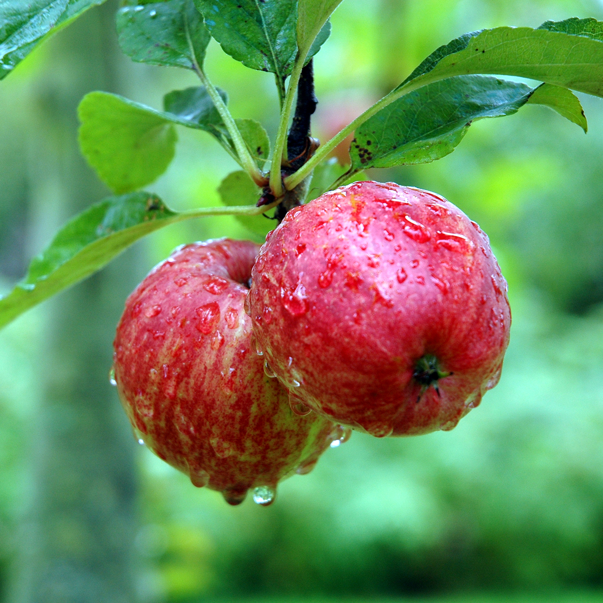 Apple in the Region Calvados